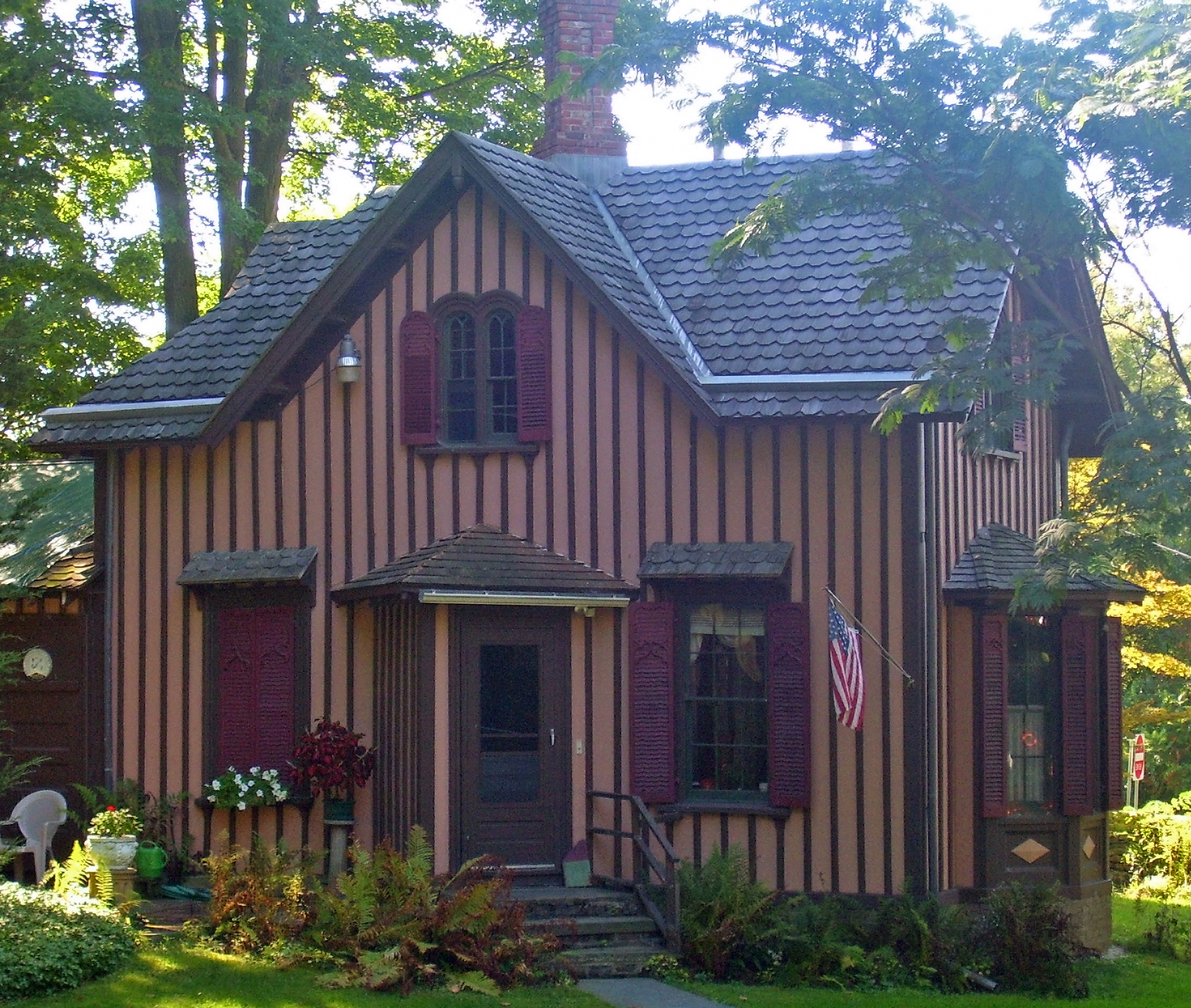 Gatehouse, only remaining original building at Springside, Matthew Vassar's estate in Poughkeepsie, NY, USA.